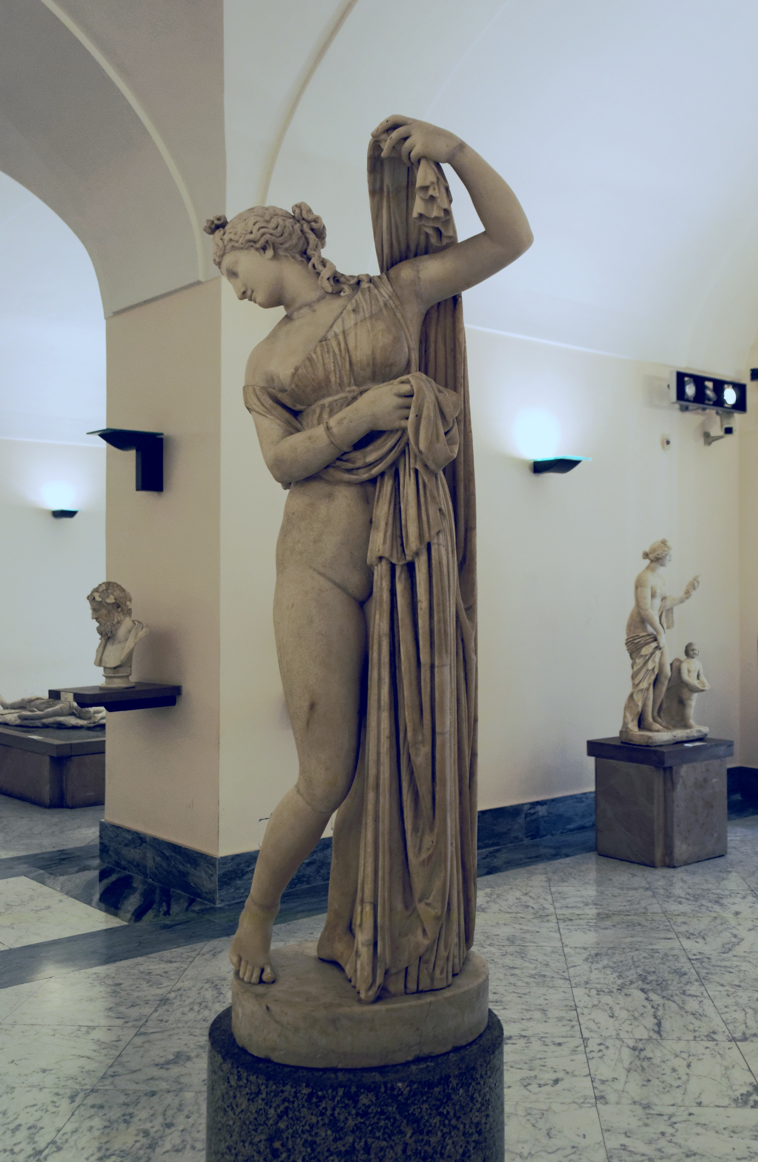 Naples, National Archaeological Museum, Inv. 6020